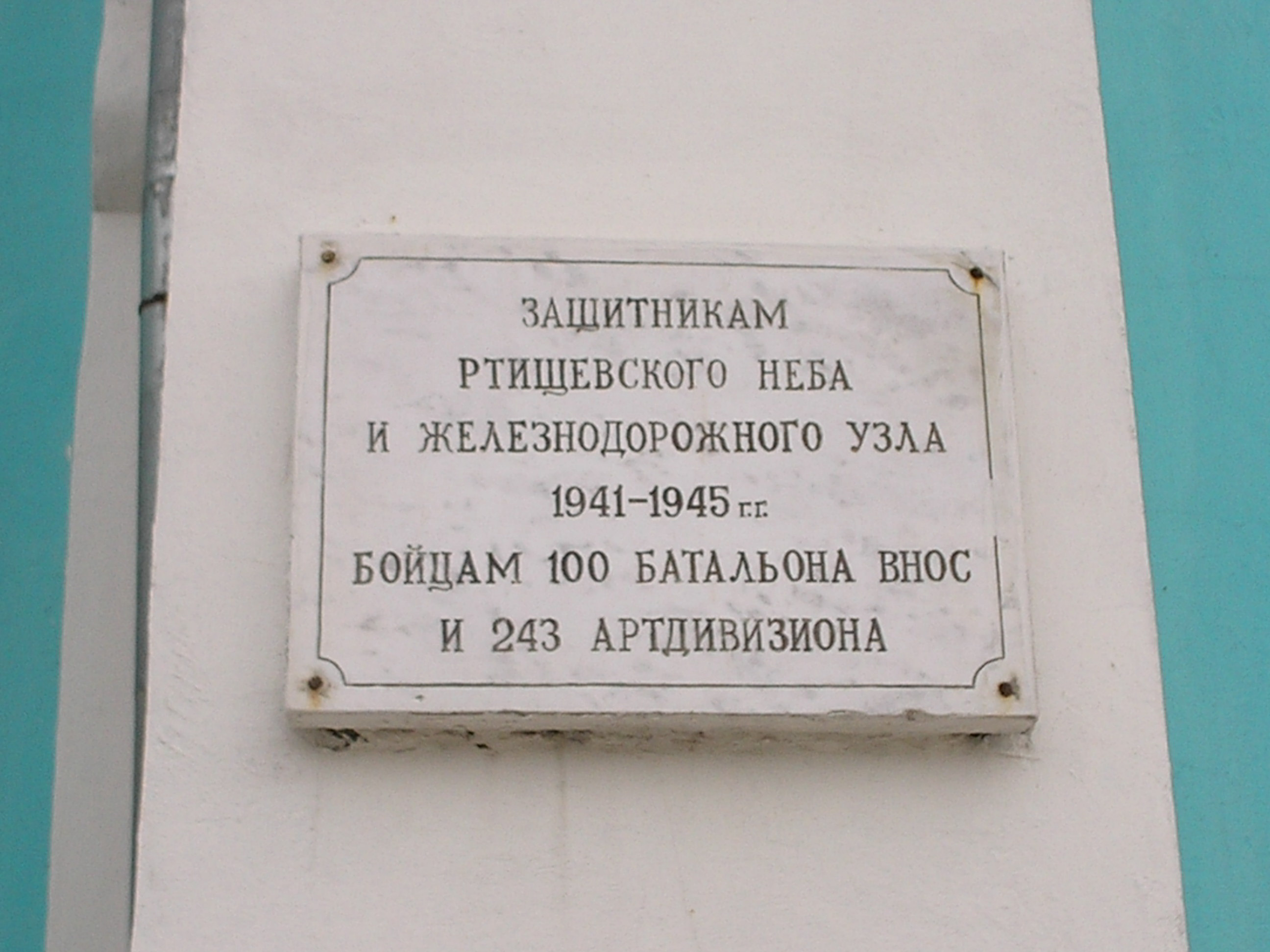 The memorial board devoted to 100 batallion ASNC and 243 SAAD (Rtishchevo)